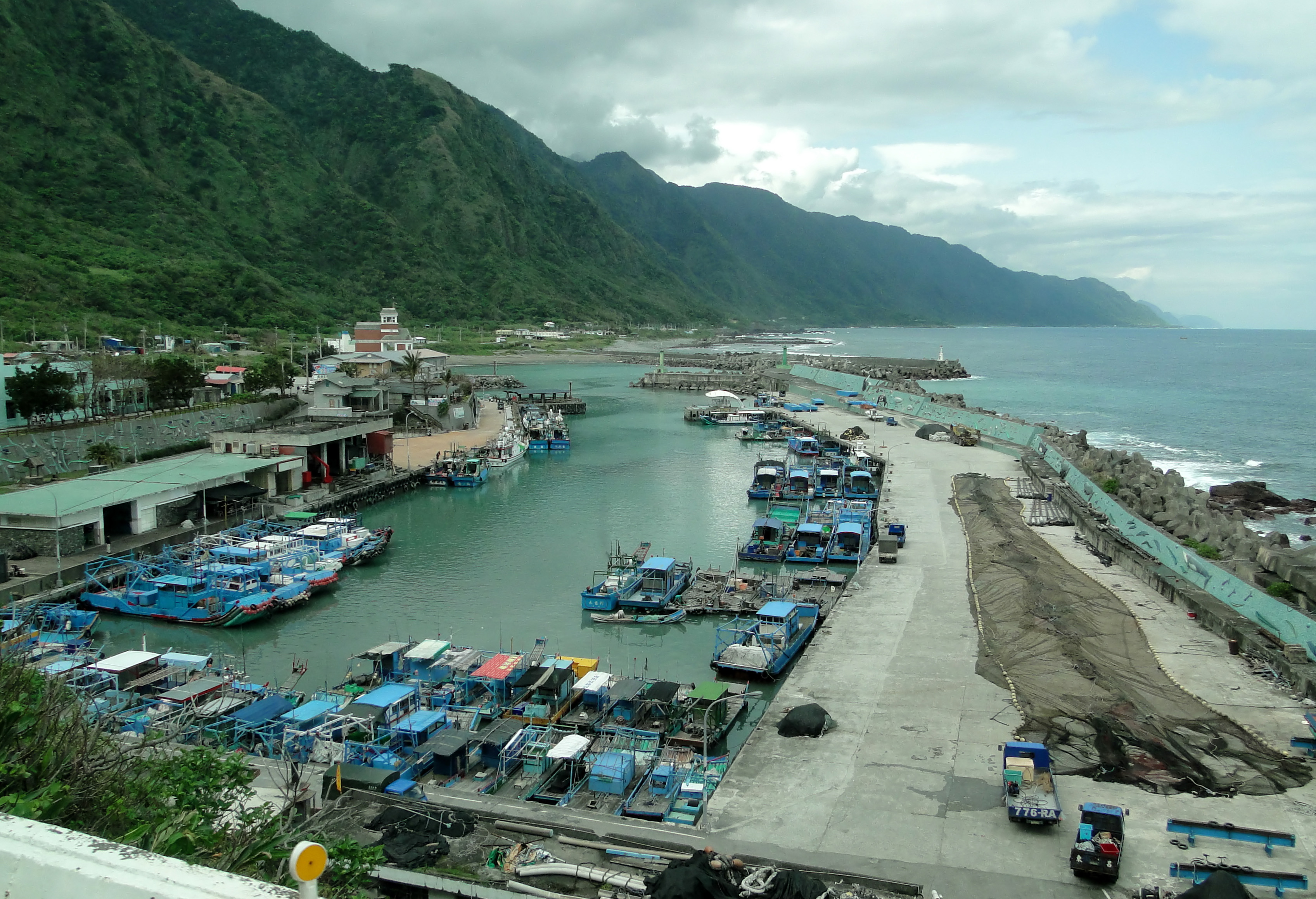 Shihtiping Harbor, Hualien County, Taiwan